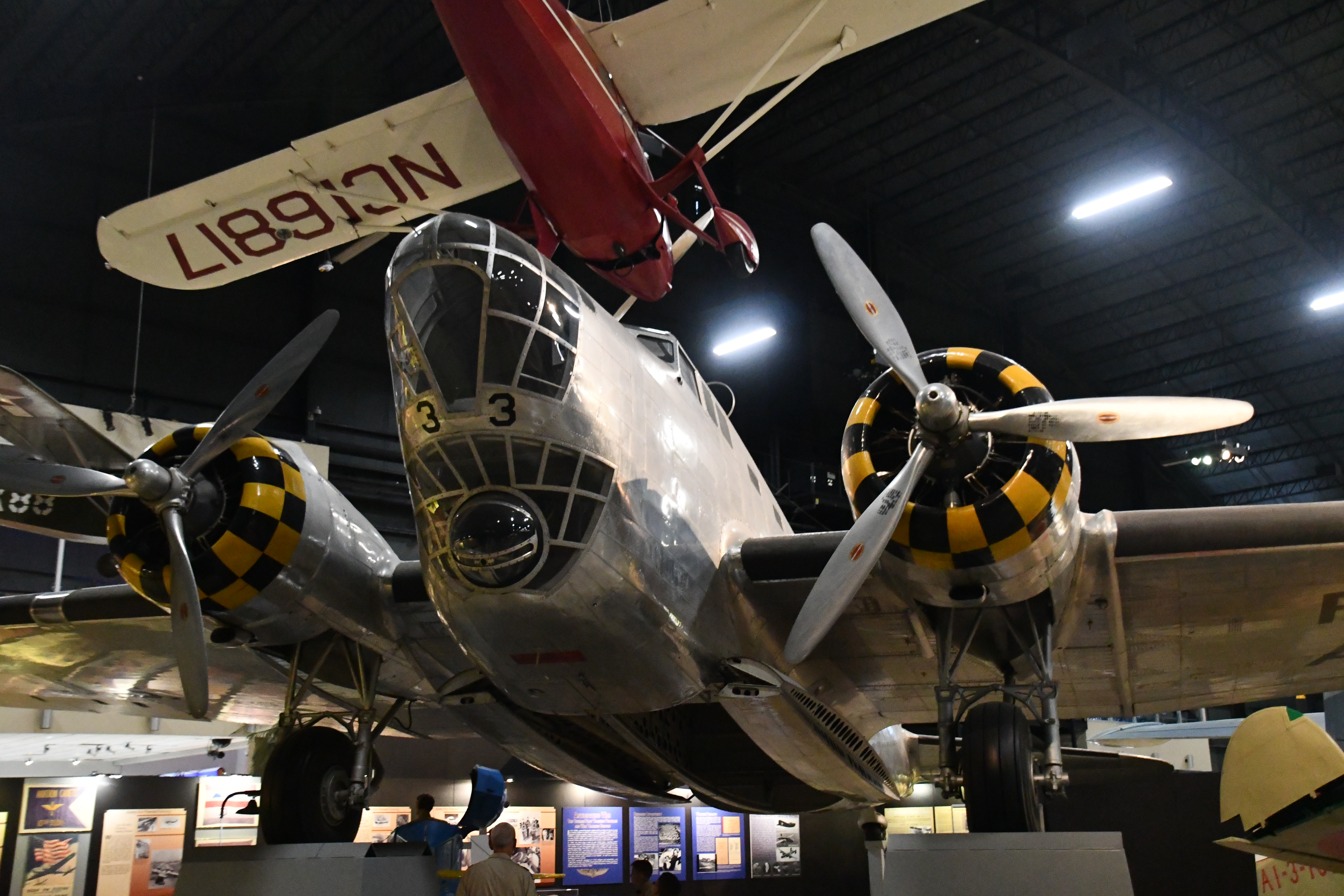 Douglas B-18A at the NMUSAF, Dayton, OH